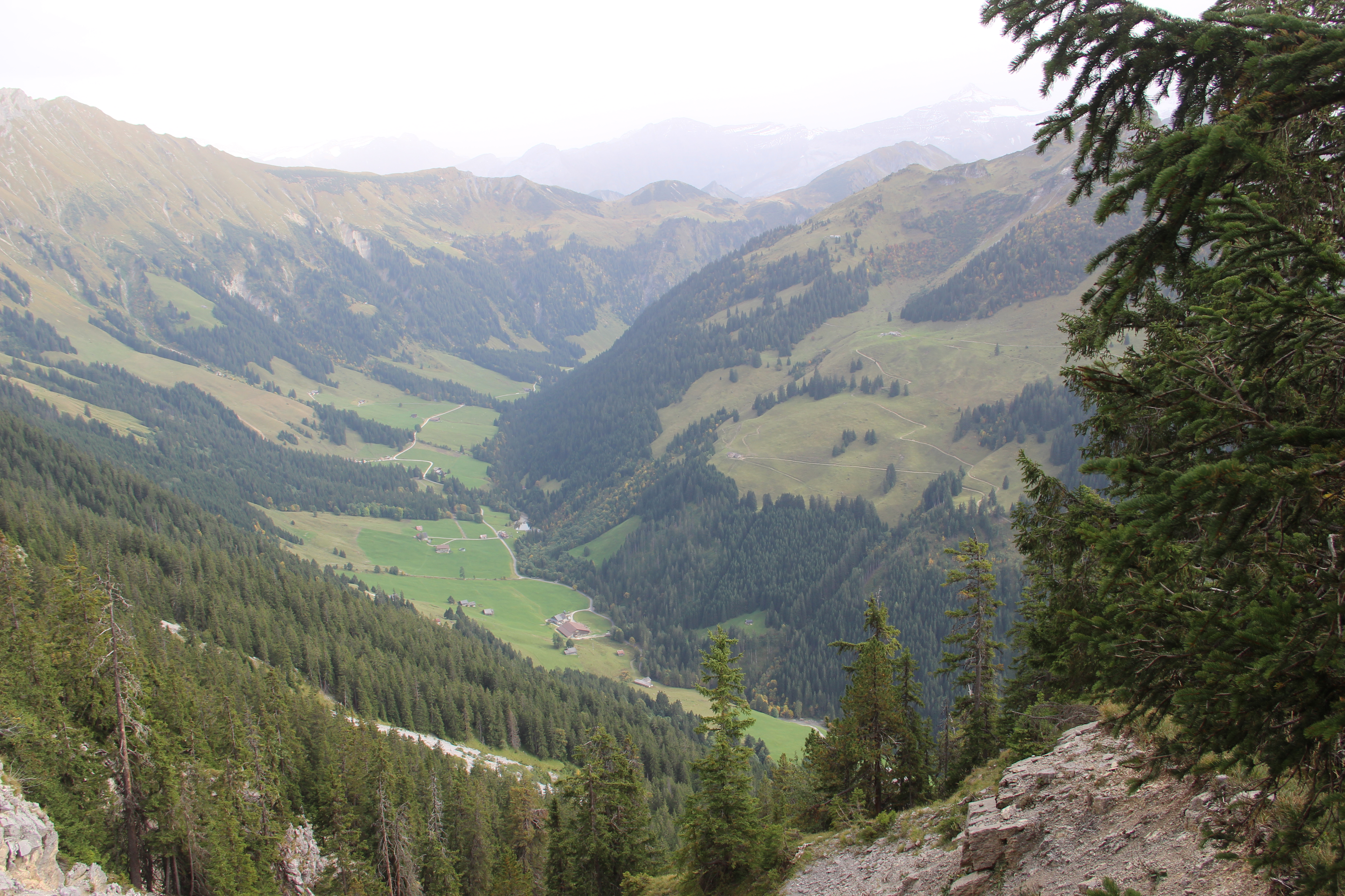 View into the Torneresse Valley